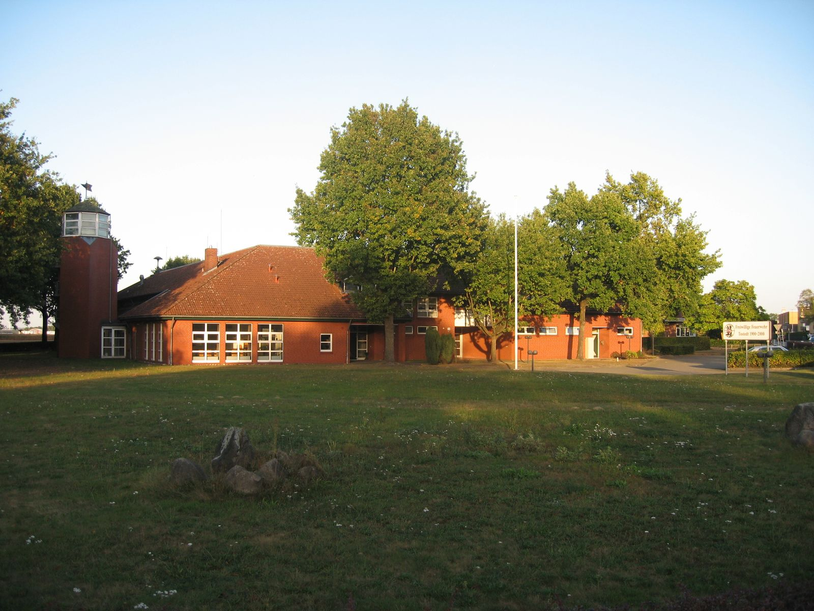 Tostedt Firestation